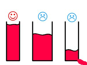 A graphical illustration of circulatory shock.